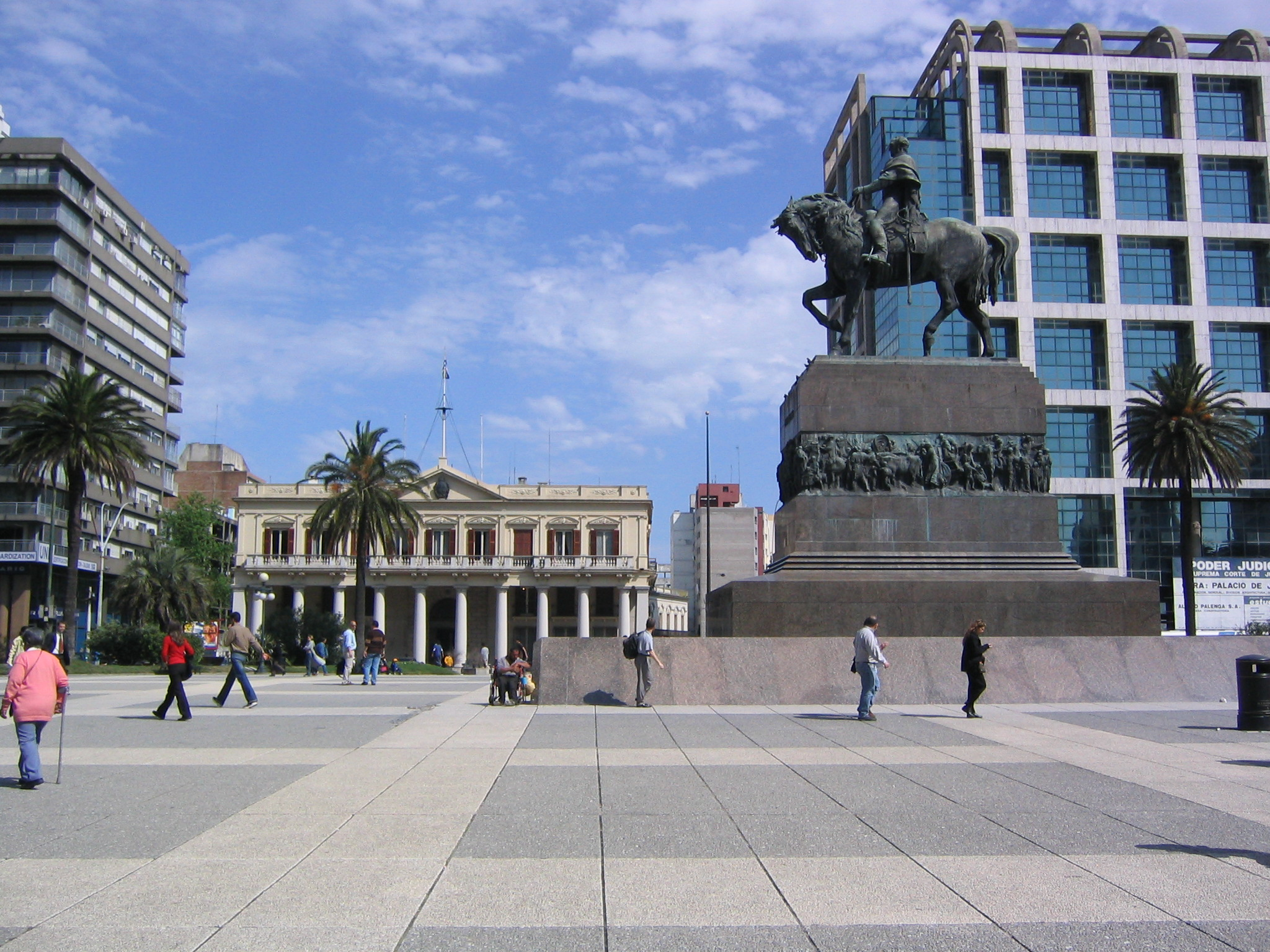 Monument to Uruguay's national hero, José Artigas, in Plaza Independencia, the main square of Montevideo. His mausoleum is downstairs, and the Palacio Estévez (former seat of government) is in the background. The new presidential offices, the Executive Tower, are at right.